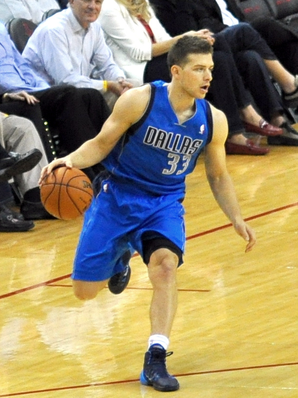 Gal Mekel of the Dallas Mavericks dribbles the ball during an NBA basketball game against the Houston Rockets, Nov. 1, 2013, at the Toyota Center in Houston, Texas.